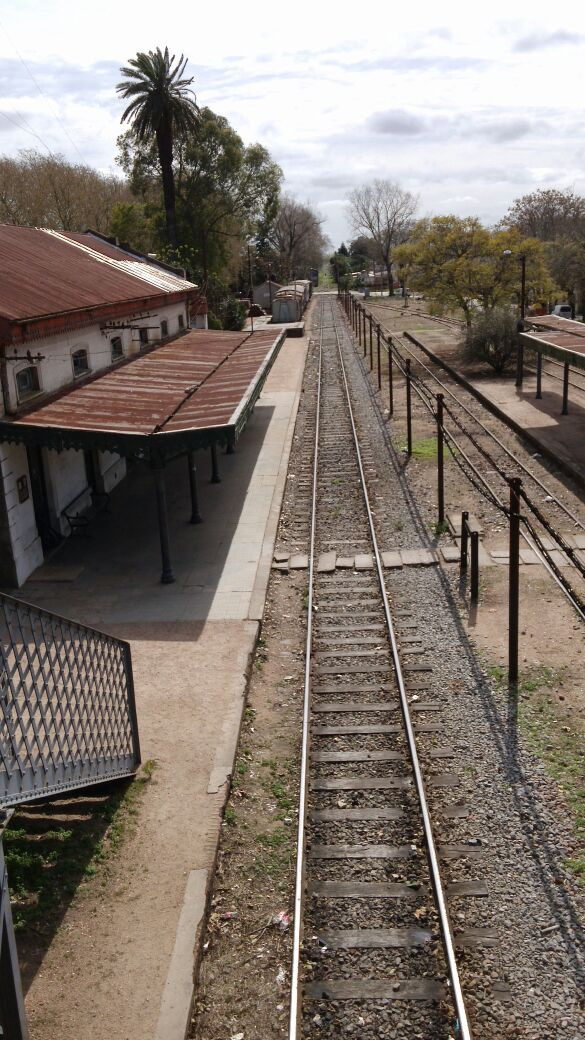 Colón railway station (Montevideo, Uruguay).